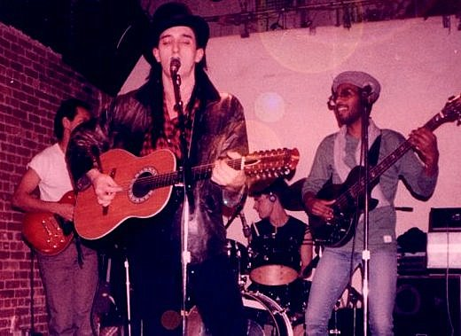 A photo of Uropa Lula in America.